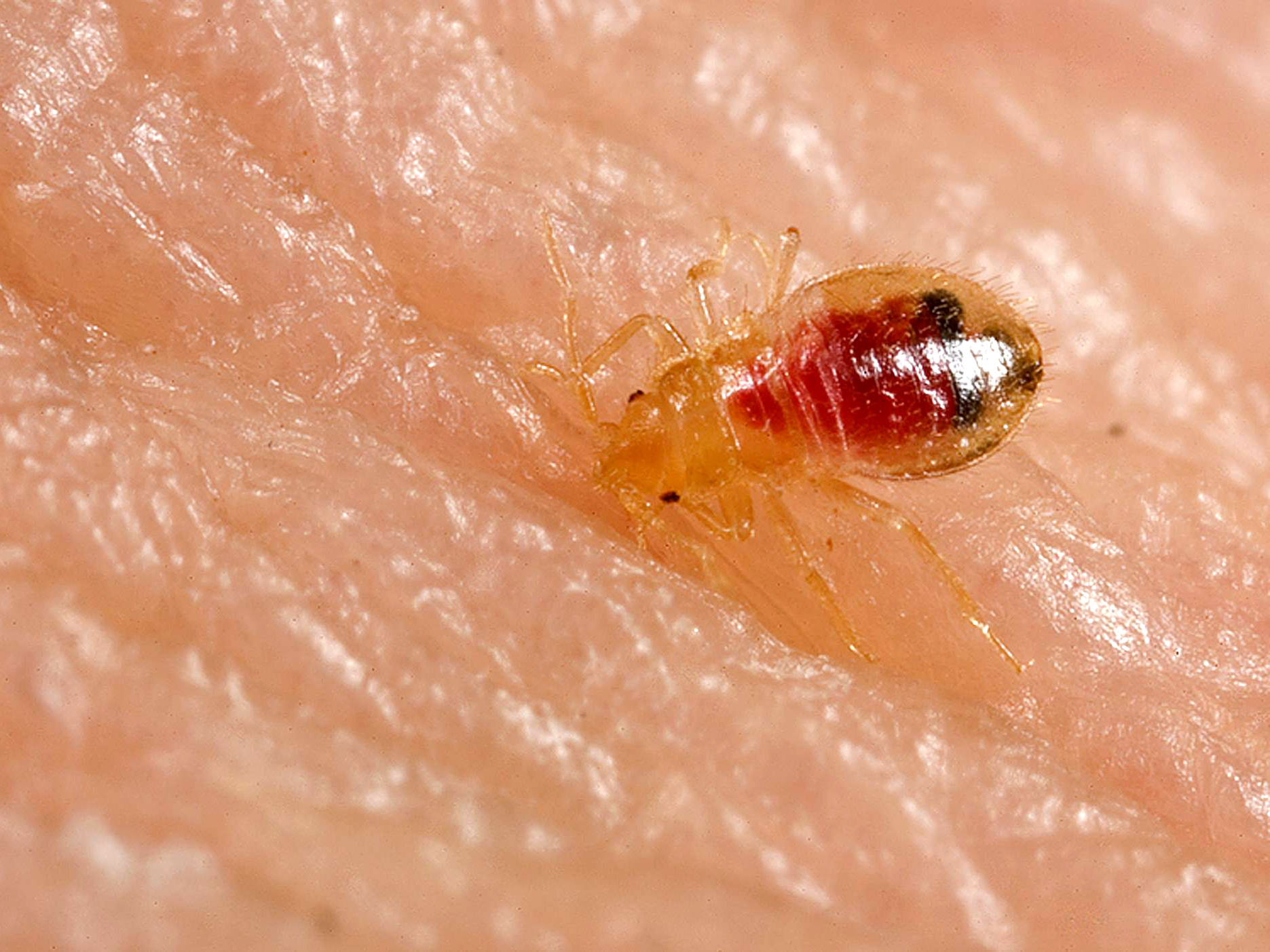 ID#: 9819 Description: This 2006 photograph depicted a dorsal view of a bed bug nymph, Cimex lectularius, as it was in the process of ingesting a blood meal from the arm of a “voluntary” human host, which could be seen filling the insect’s abdomen. Bed bugs are not vectors in nature of any known human disease. Although some disease organisms have been recovered from bed bugs under laboratory conditions, none have been shown to be transmitted by bed bugs outside of the laboratory. The common bed bug is found worldwide. Infestations are common in the developing world, occurring in settings of unsanitary living conditions and severe crowding. In North America and Western Europe, bed bug infestations became rare during the second half of the 20th century and have been viewed as a condition that occurs in travelers returning from developing countries. However, anecdotal reports suggest that bed bugs are increasingly common in the United States, Canada, and the United Kingdom. An immature bed bug may take several months to mature to an adult and an adult bed bug can live for up to one year. During development, the young bed bug will feed frequently on the blood of humans, and can exist for many months between blood meals. Bed bugs inject saliva into the blood stream of their host to thin the blood, and to prevent coagulation. It is this saliva that causes the intense itching and welts. The delay in the onset of itching gives the feeding bed bug time to escape into cracks and crevices. In some cases, the itchy bites can develop into painful welts that last several days. The common bed bug C. lectularius is a wingless, red-brown, blood-sucking insect that grows up to 7 mm in length and has a lifespan from 4 months up to 1 year. Bed bugs hide in cracks and crevices in beds, wooden furniture, floors, and walls during the daytime and emerge at night to feed on their preferred host, humans.